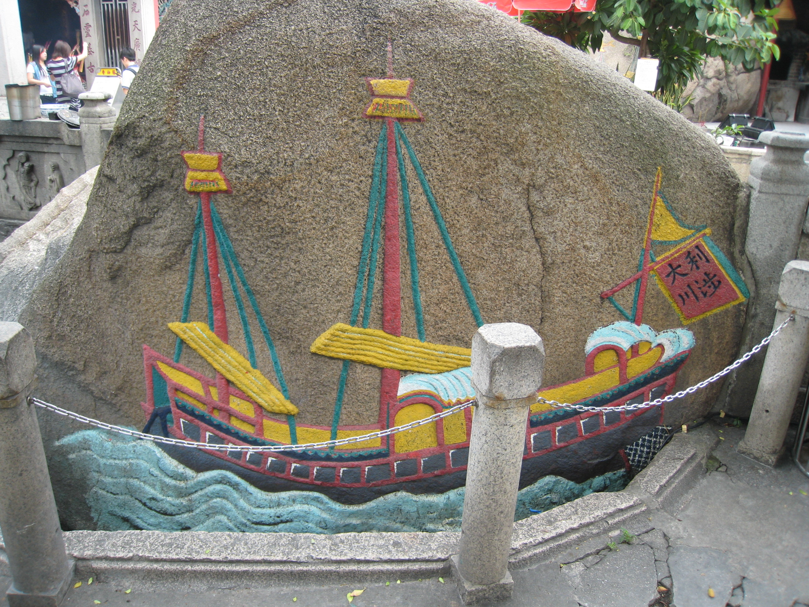 Rock in A-Ma Temple. This rock had become another color than the time in 2005.